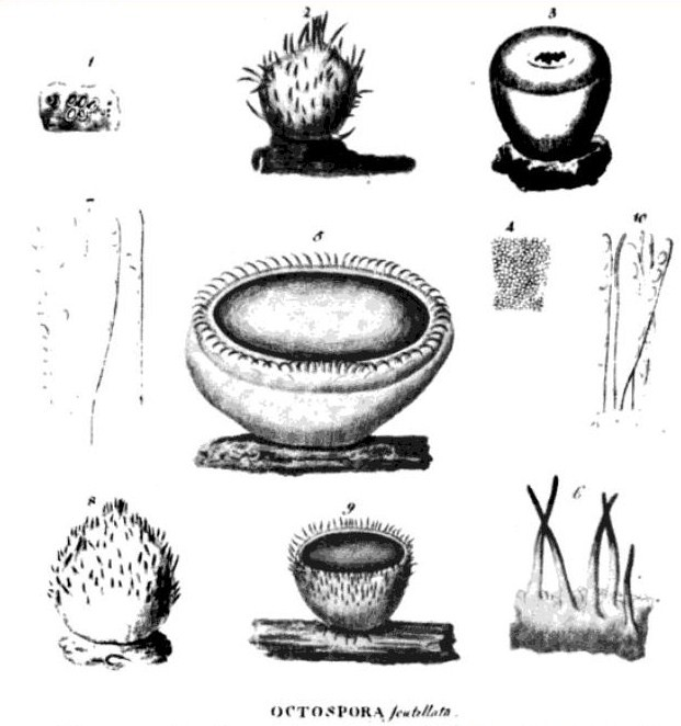 Copied from here, originally drawn by J Hedwig in 1788